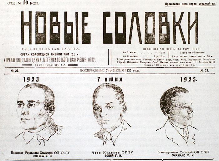 Frontpage of newspaper "New Solovezki Islands", printed and published from the solovezky-islands camp for special use of the O.G.P.U.